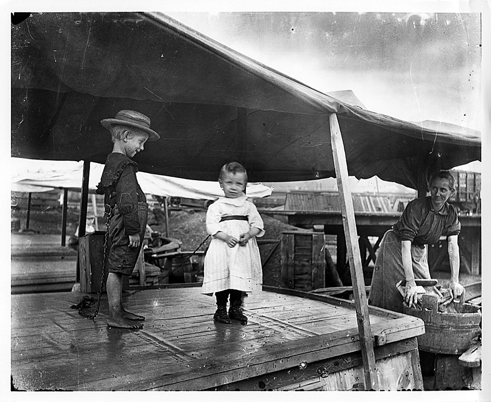 Children on a Chesapeake and Ohio Canal boat, tethered to the boat to keep from falling off. The Western MD Historical society states that this picture was probably taken in one of the Cumberland basins, the evidence being the railroad bridge in the background, which is in other photographs.